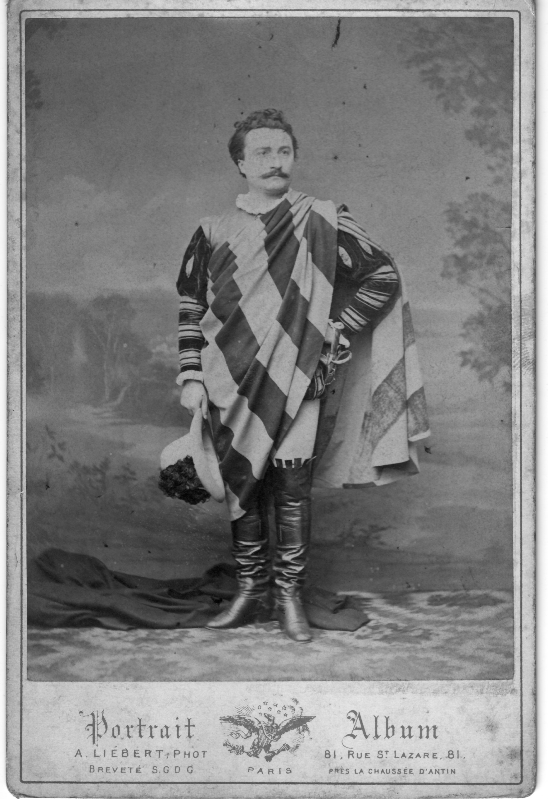 Ulysse Toussaint, french ténor (1839-1919) stage name: du Wast ou Duwast in stage costume in Paris